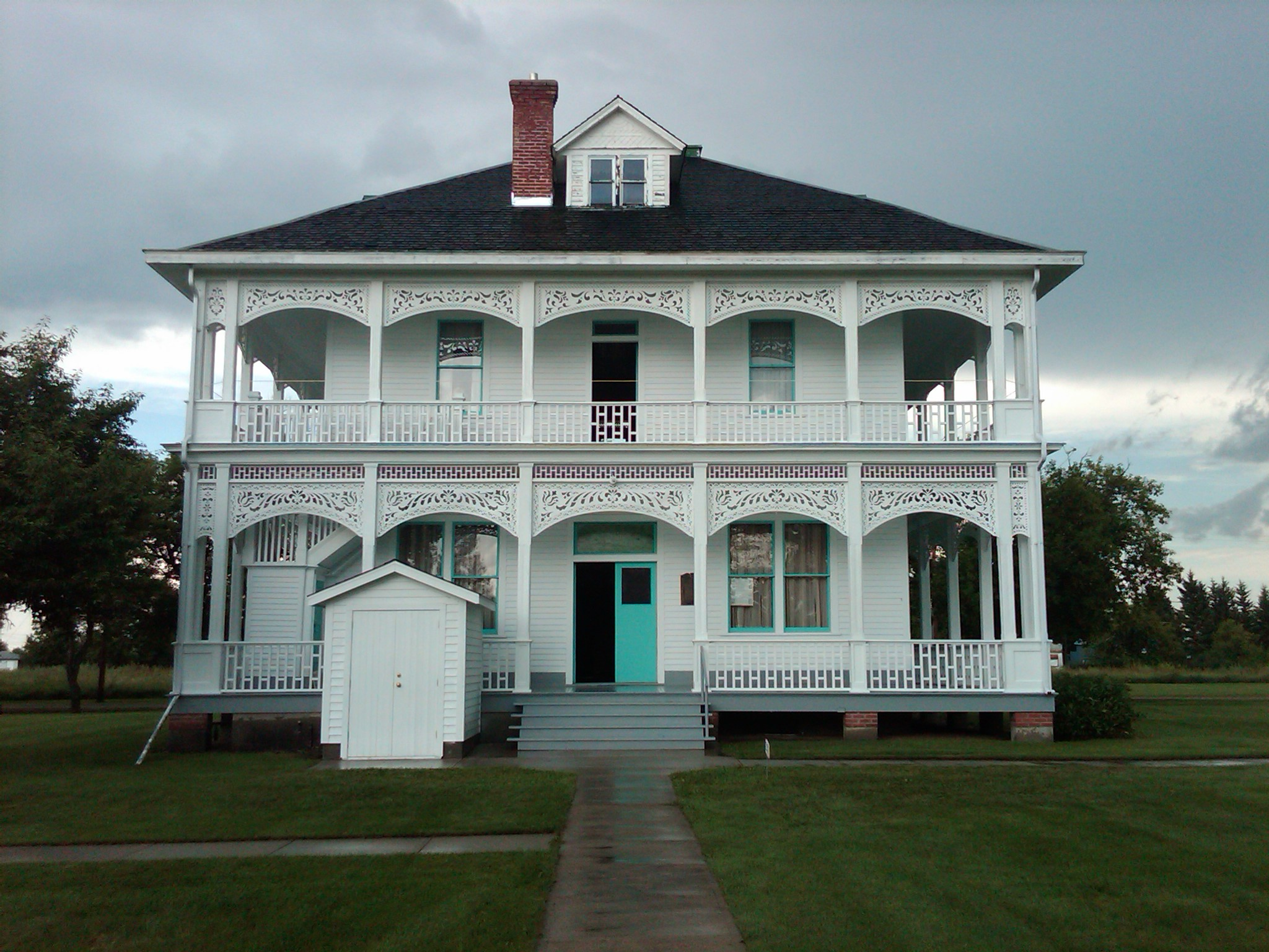 This is a picture of the "Veregin Prayer Dome" at the Veregin Museum in Veregin, Saskatchewan. The camera is facing north looking at the main entrance of the house.